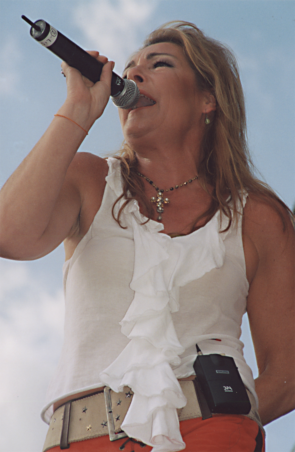 Lis Sørensen. Copyright: I hereby state that i'm the creator of this photographic work, and that it is uploaded to Wikipedia under GFDL with my approval. It is therefore free of any copyrights and can be used by Wikipedia and all other users. I hereby assert that I am the creator of this contribution and/or it does not violate any third party rights. I agree to publish this text under the GNU Free Documentation License. Please don't submit encyclopedic articles here but in Wikipedia. Philip Meisner